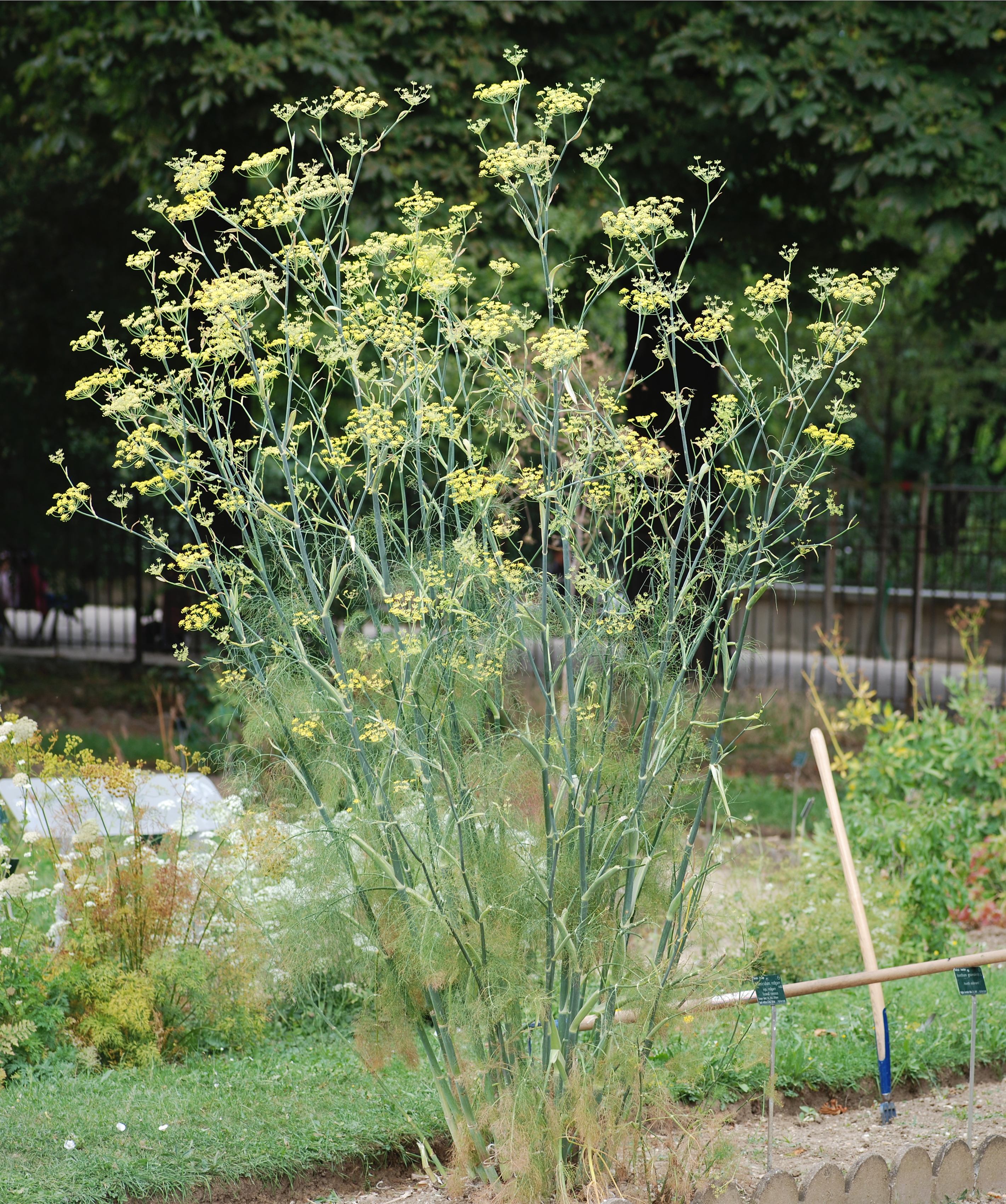 Fennel (Foeniculum vulgare). Botanic school of Jardin des Plantes, Paris.